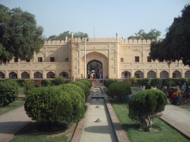 A picture of Roshnai Gate from the Hazuri Bagh, Lahore, Pakistan. Picture taken by Pale blue dot on June 10, 2004.